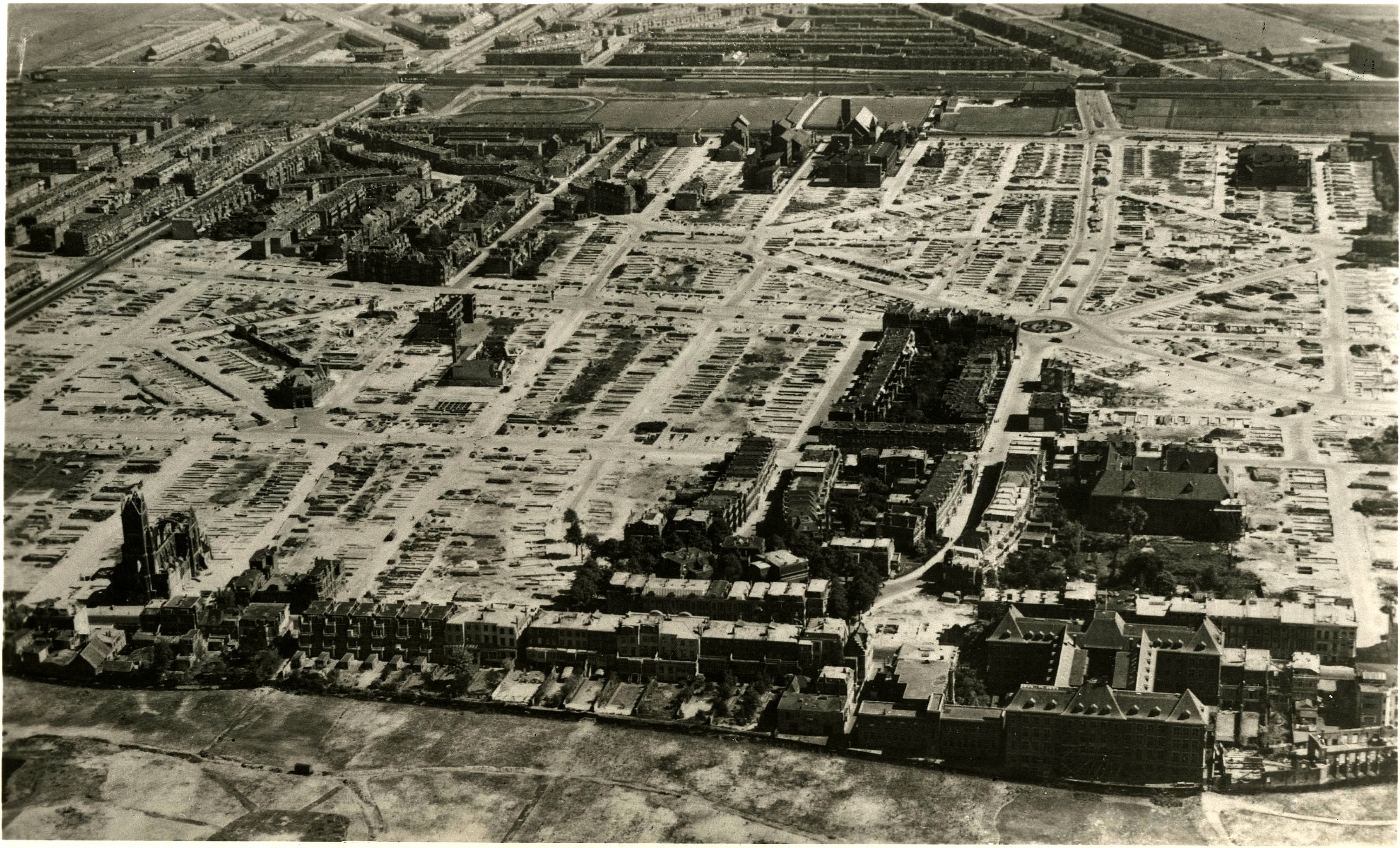 The desolate landscape of the Hague neighborhood of Bezuidenhout in 1946. At the front the Bezuidenhoutseweg road. Completely at the back, behind the railroad tracks, a part of the municipality of Voorburg.